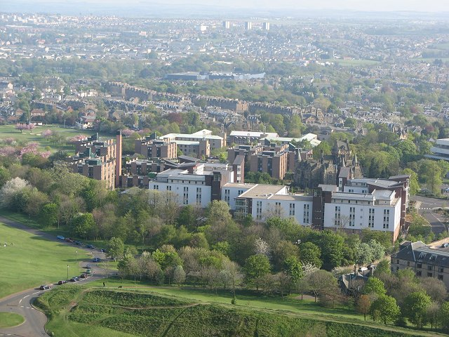 Pollock Halls University halls of residence (University of Edinburgh). Originally developed as the Commonwealth Games Village in 1970.